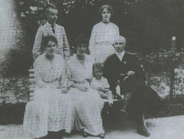 A photo of Skoropadskiy family